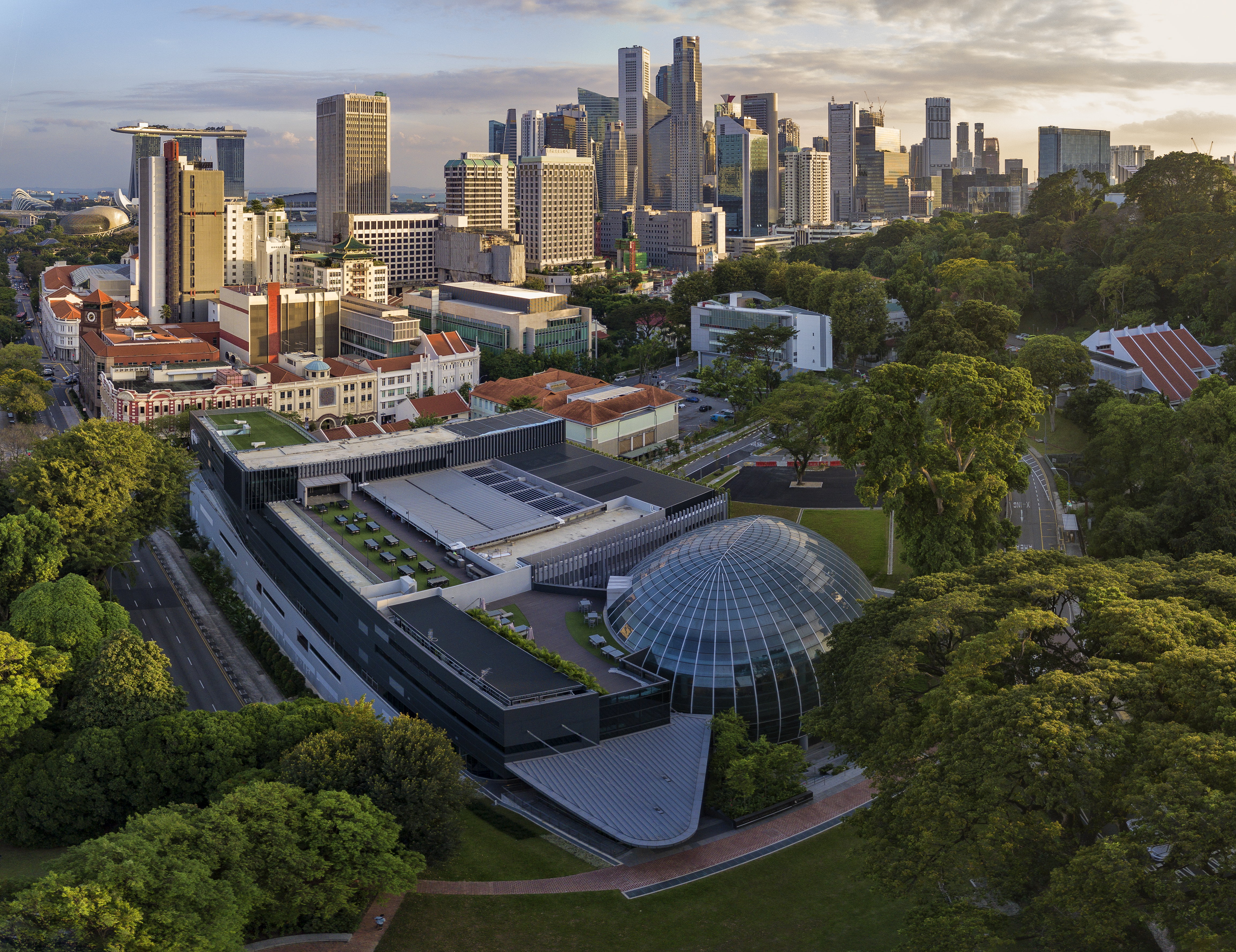 Singapore Management University School of Law Armeninan Street